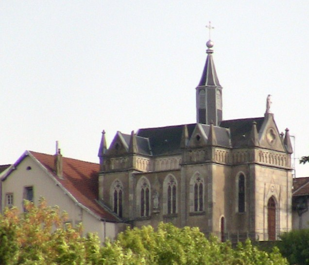 A church located in Besançon (Doubs, France)